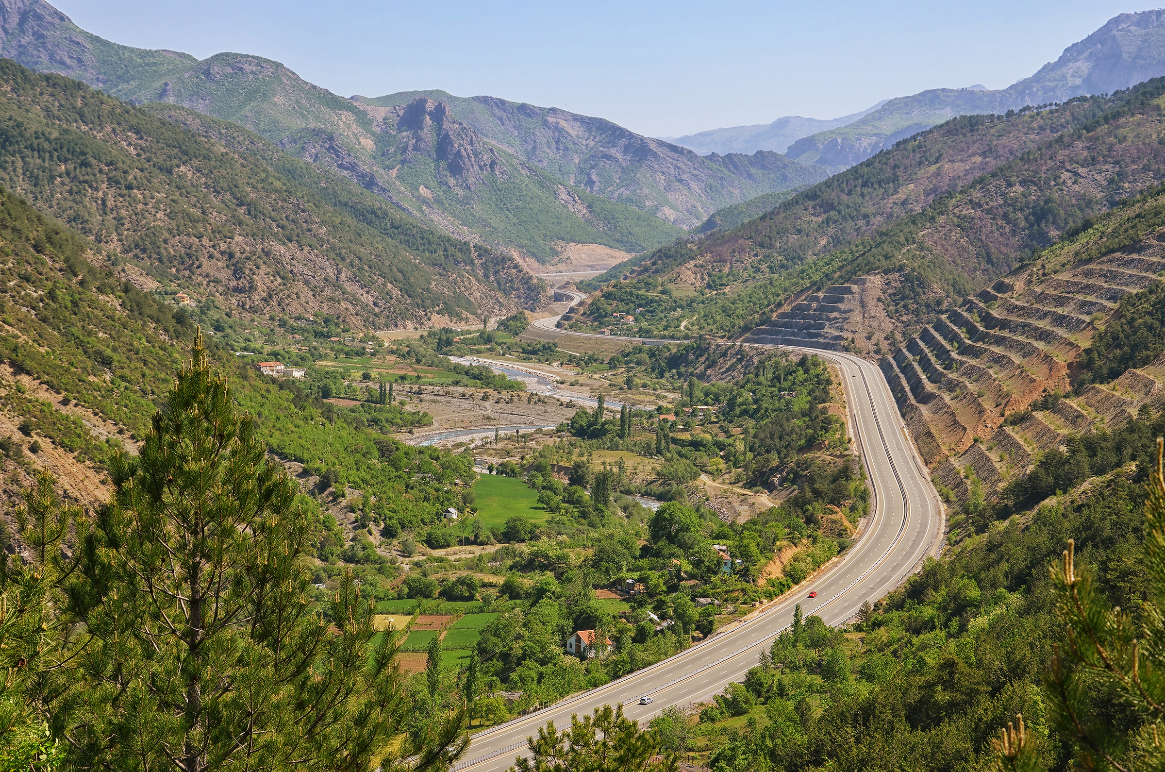 Mashterkor, Mirditë, Albania in the Valley of the Little Fan (Fan i Vogël)